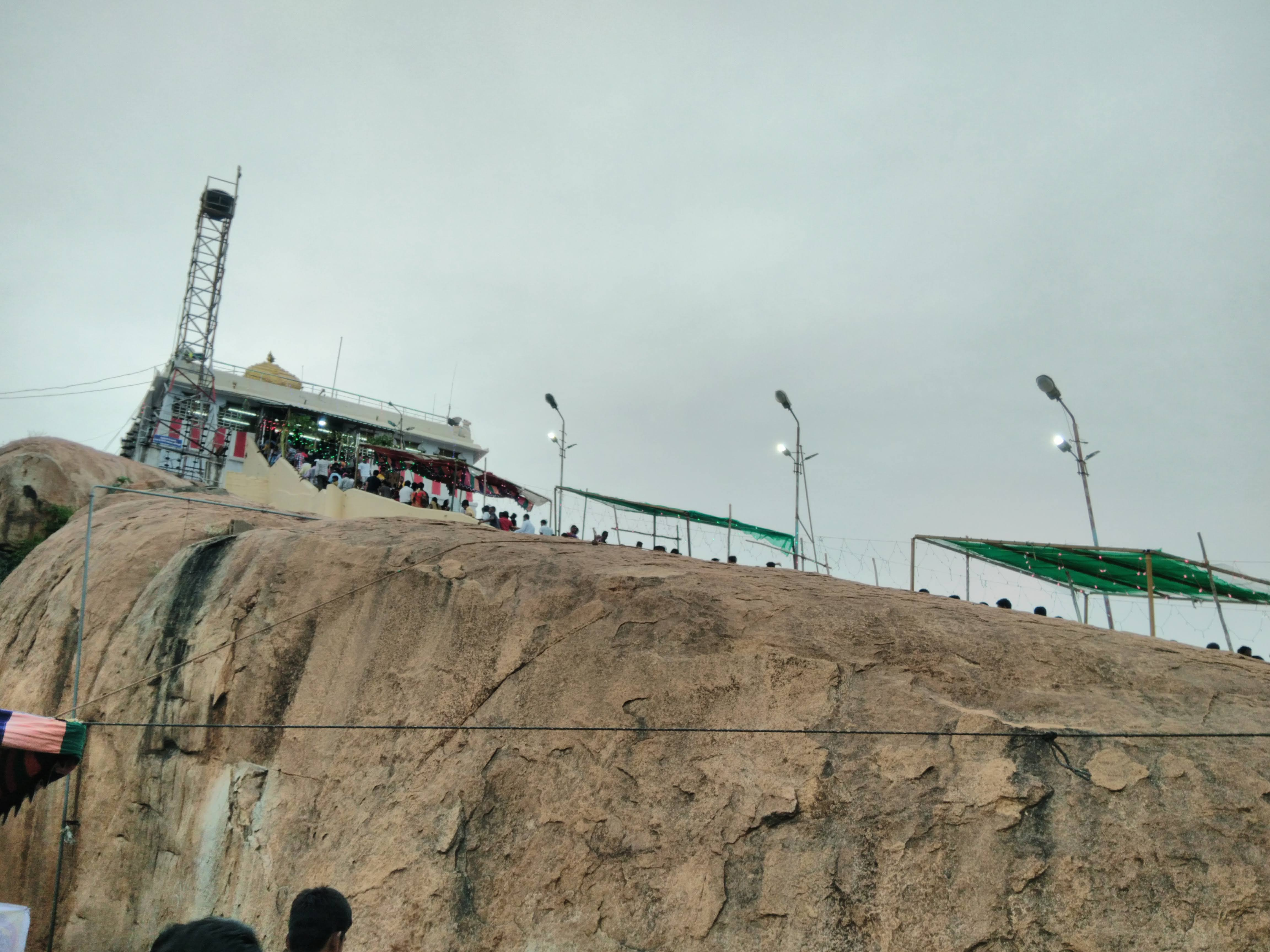 Uchi Pillayar temple,Thiruchirapalli, Tamilnadu, India.